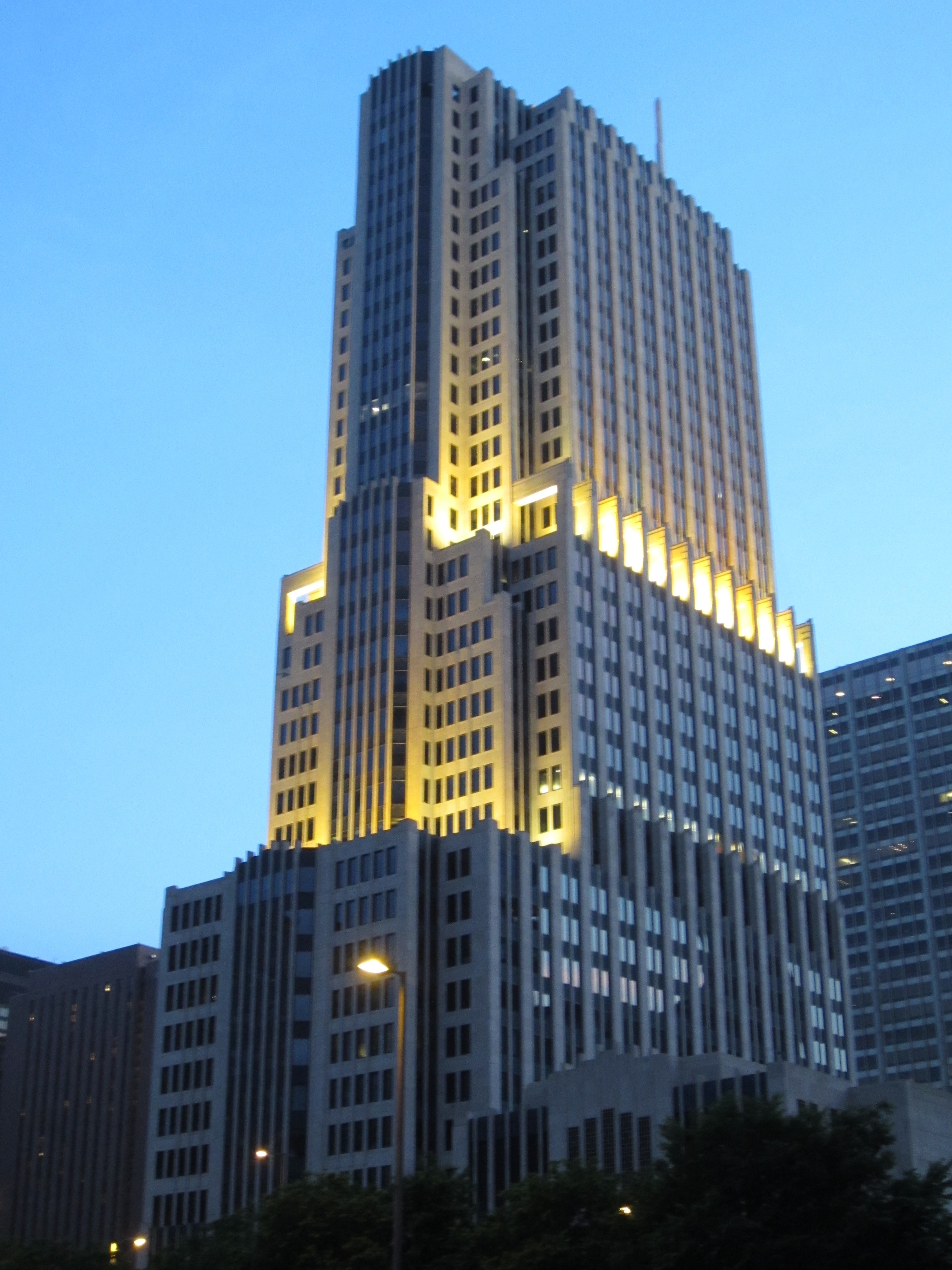 Chicago, Illinois, June 2015